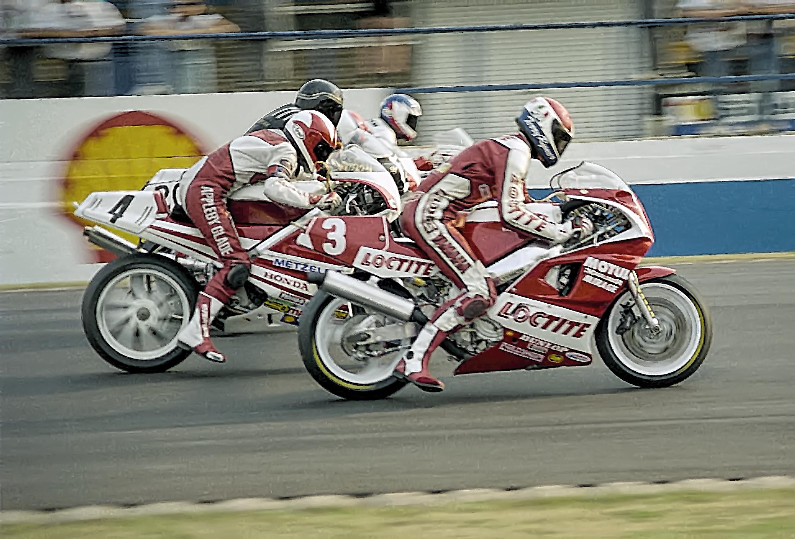 Castle Donington (England), Donington Park, July 1989. Terry Rymer's Yahama (no. 3) ahead of Carl Fogarty's Honda (no. 4) at the start of 1989 TT Formula One Superbike Challenge.